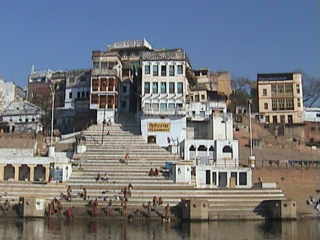 See Varanasi Development Cooperation Handbook/Stories/Responsible Development - Varanasi The Varanasi Heritage Dossier Kautilya Society Play media Vrinda Dar - How we got involved in heritage protection of Varanasi